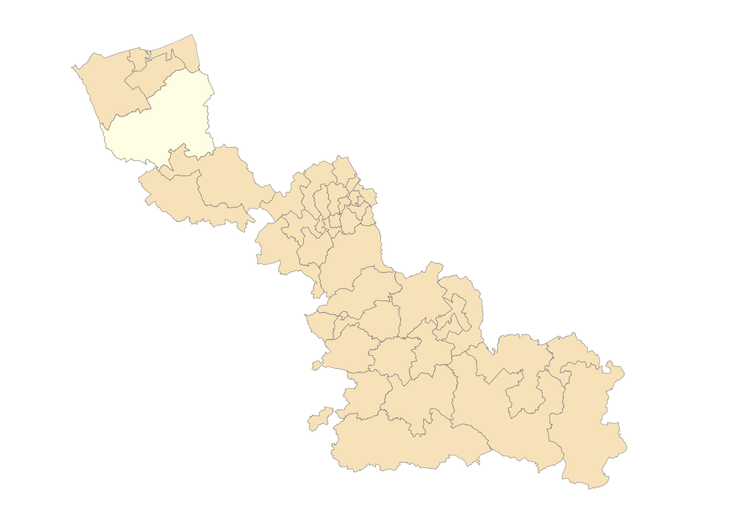 Situation des cantons du Nord